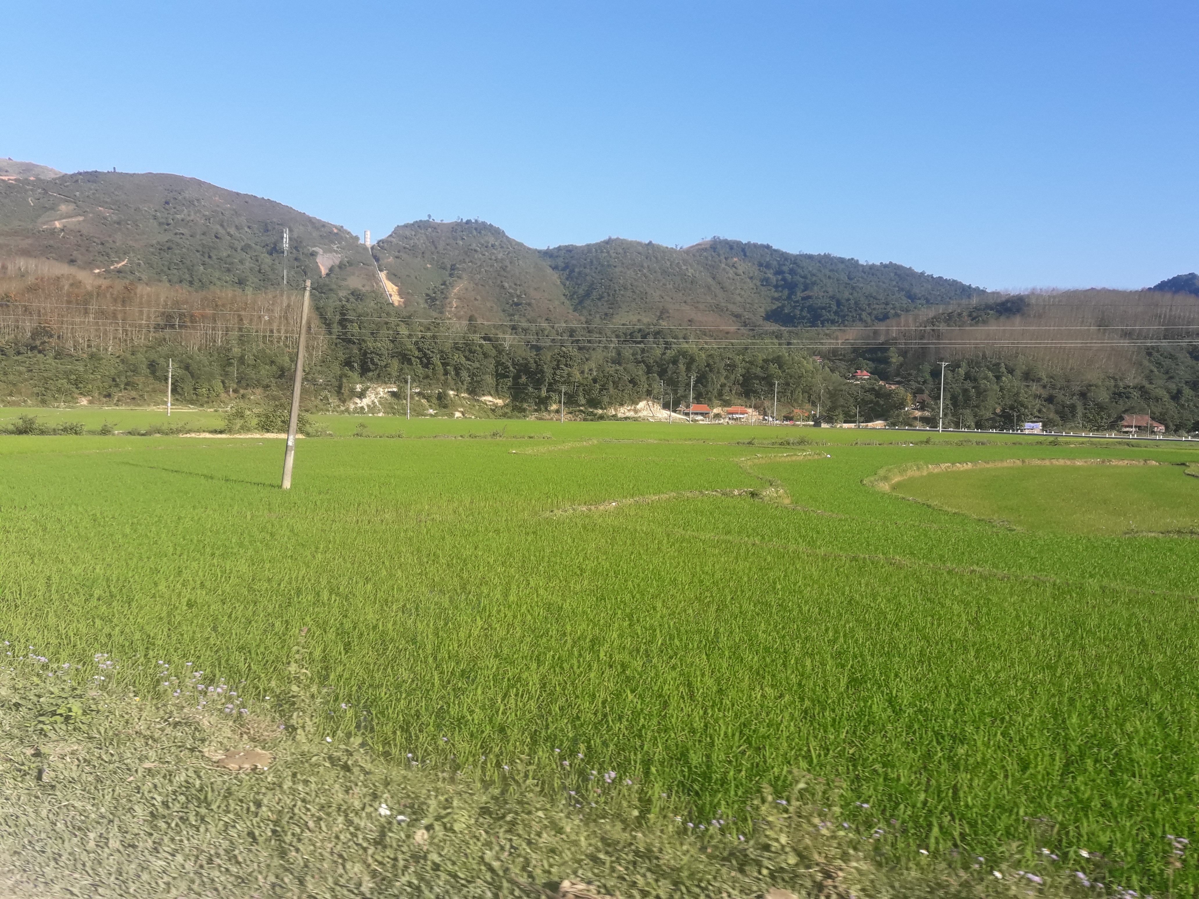 Rice Fields in Dien Bien